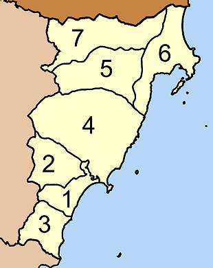 Map of Pathio district, Chumphon province, with the communes (tambon) numbered Bang Son (บางสน) Thale Sap (ทะเลทรัพย์) Sa Phli (สะพลี) Chum Kho (ชุมโค) Don Yang (ดอนยาง) Pak Khlong (ปากคลอง) Khao Chai Rat (เขาไชยราช)